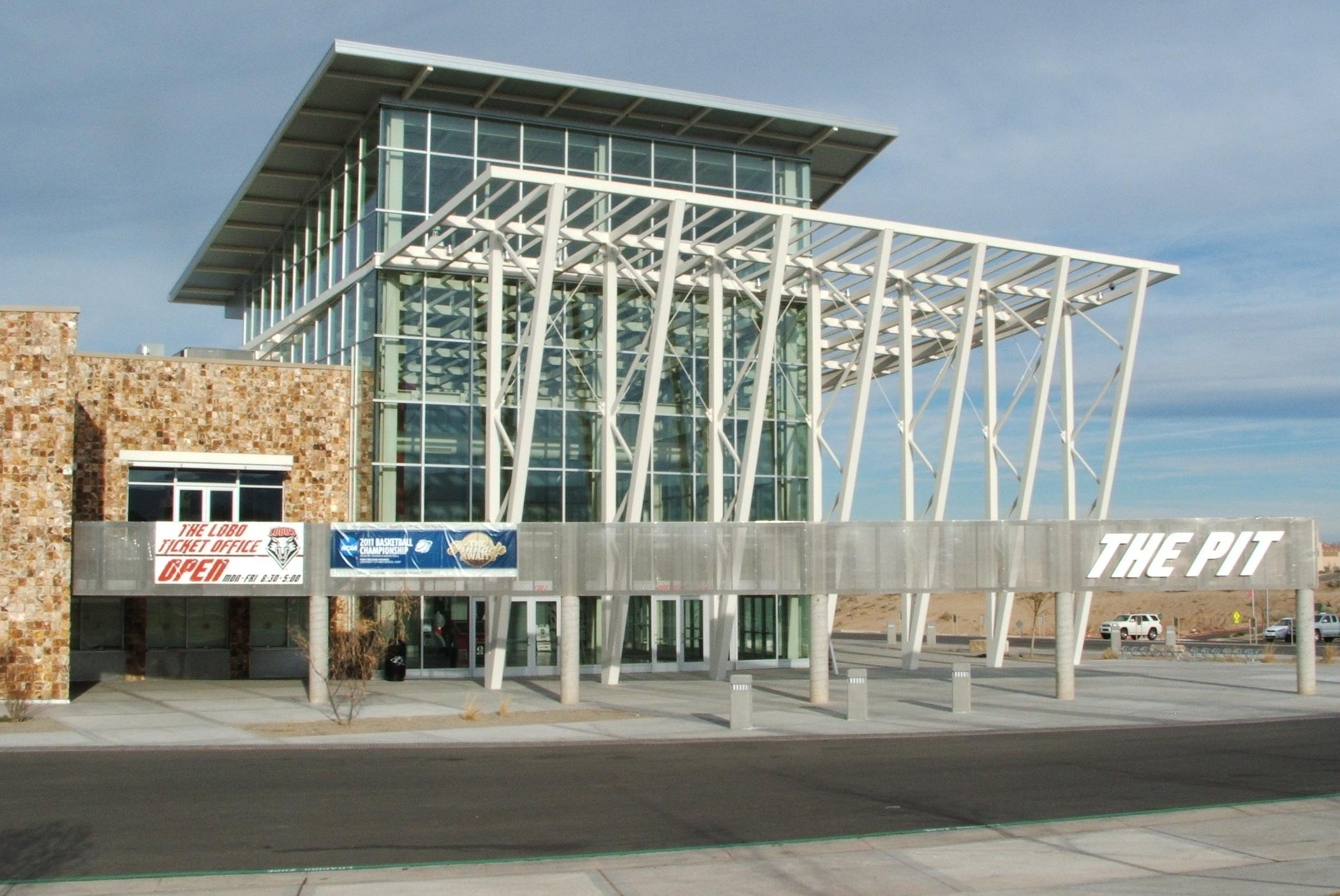 The main entrance to The Pit arena at the University of New Mexico.